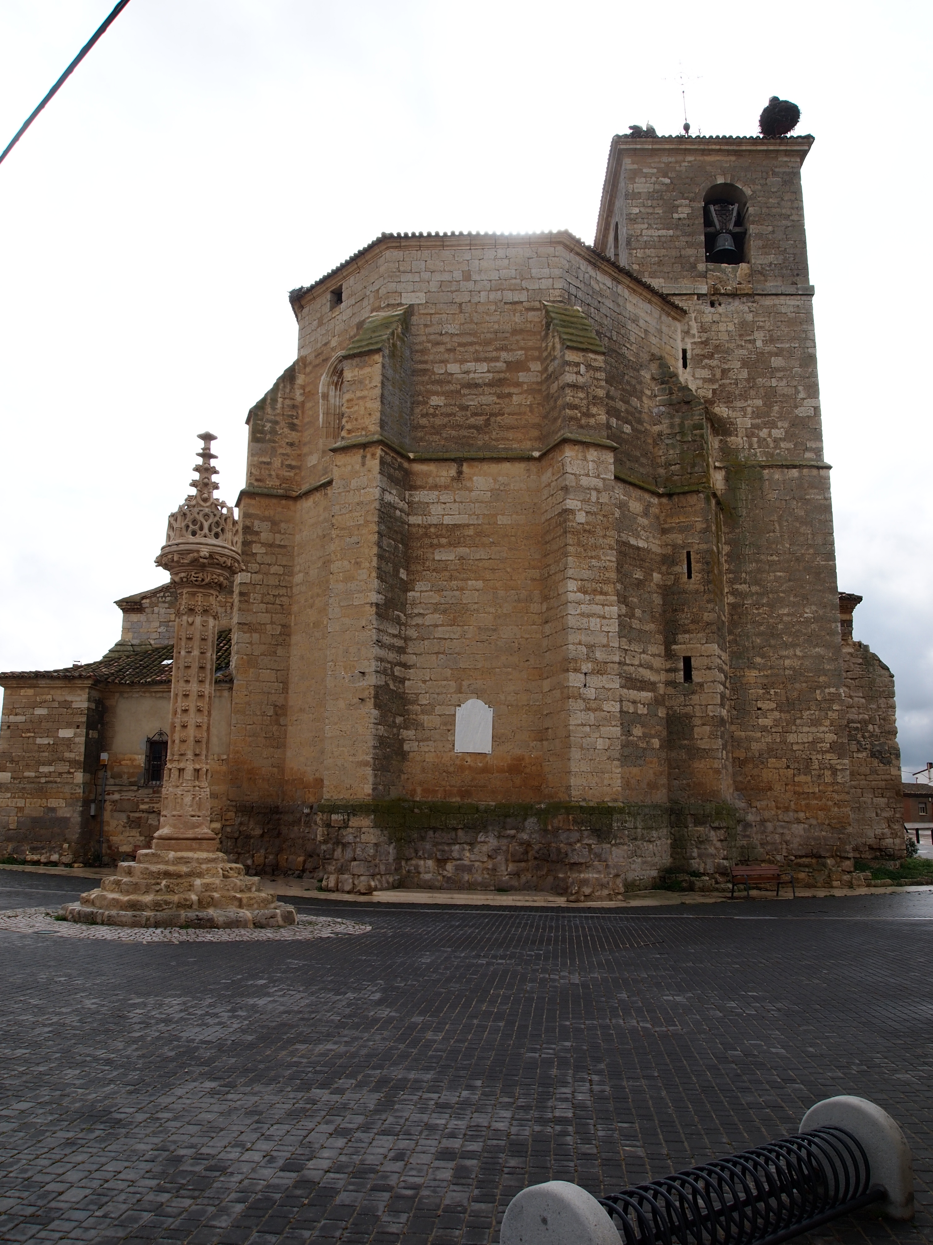 Church of the Assumption -Boadilla del Camino